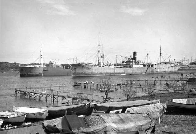 Whaling factory ships Fraternitas (A.P. Møller), ex. Mahronda and Sir James Clark Ross, and Kosmos (Anders Jahre) in Sandefjord